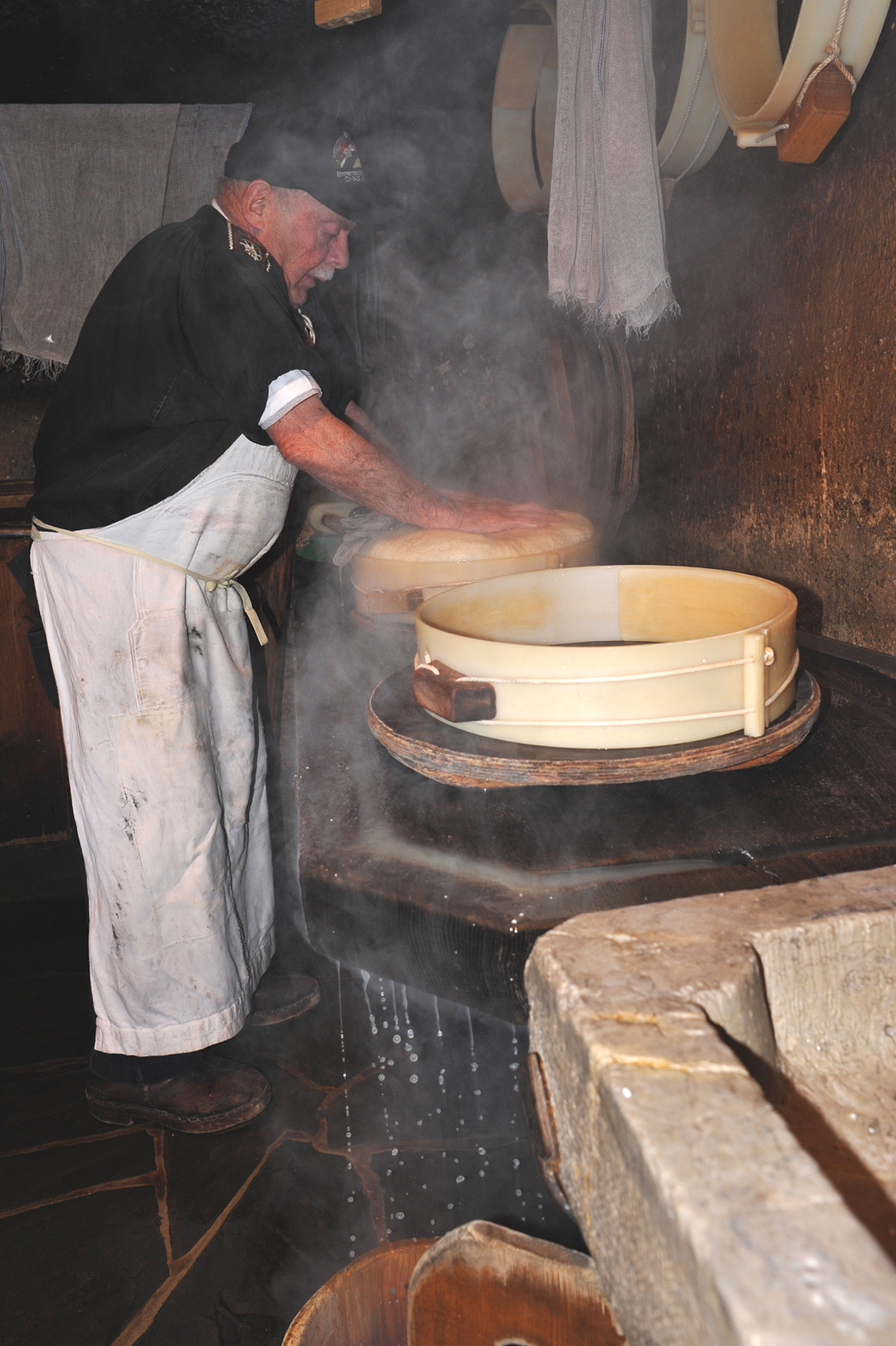 Emmental show dairy, in the "Küherstock"; traditional cheese production; Affoltern, Berne, Switzerland.